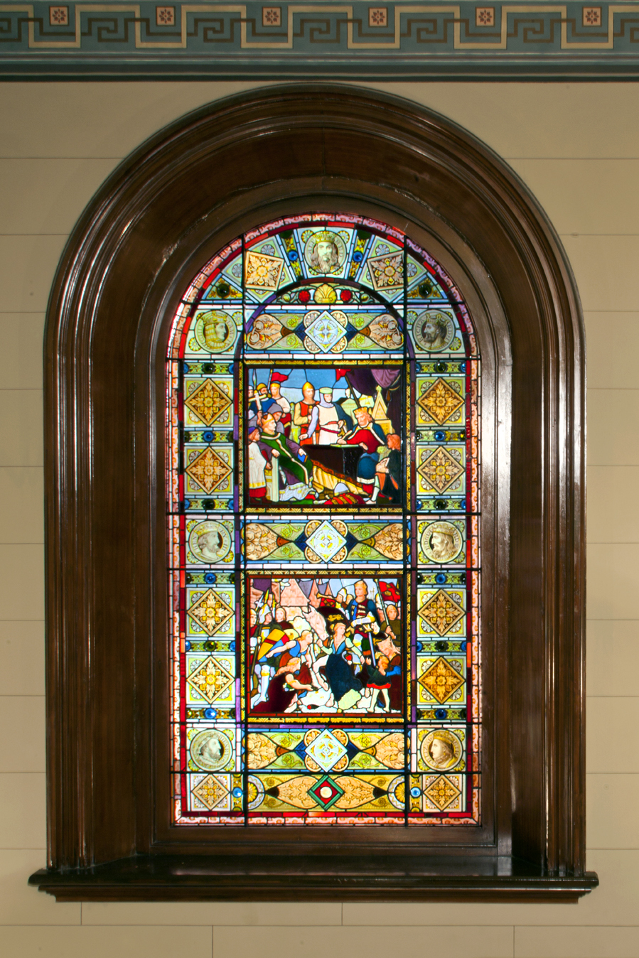 1880s original stained glass window situated above the main staircase at Swifts Mansion which depicts King John of England signing the Magna Carta and King Henry V of England following his victory at the Battle of Agincourt